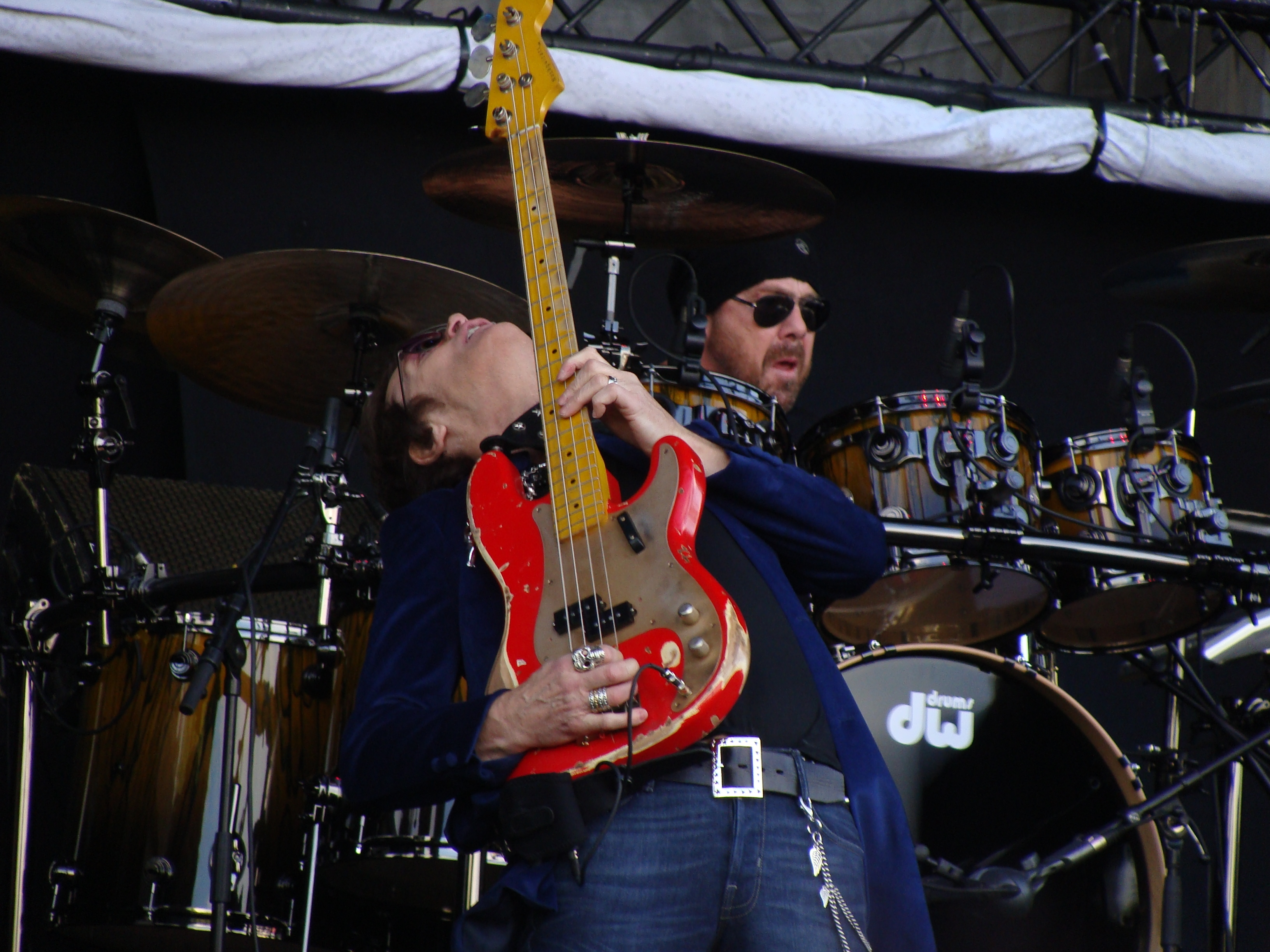 Glenn Hughes and Jason Bonham of Black Country Communion